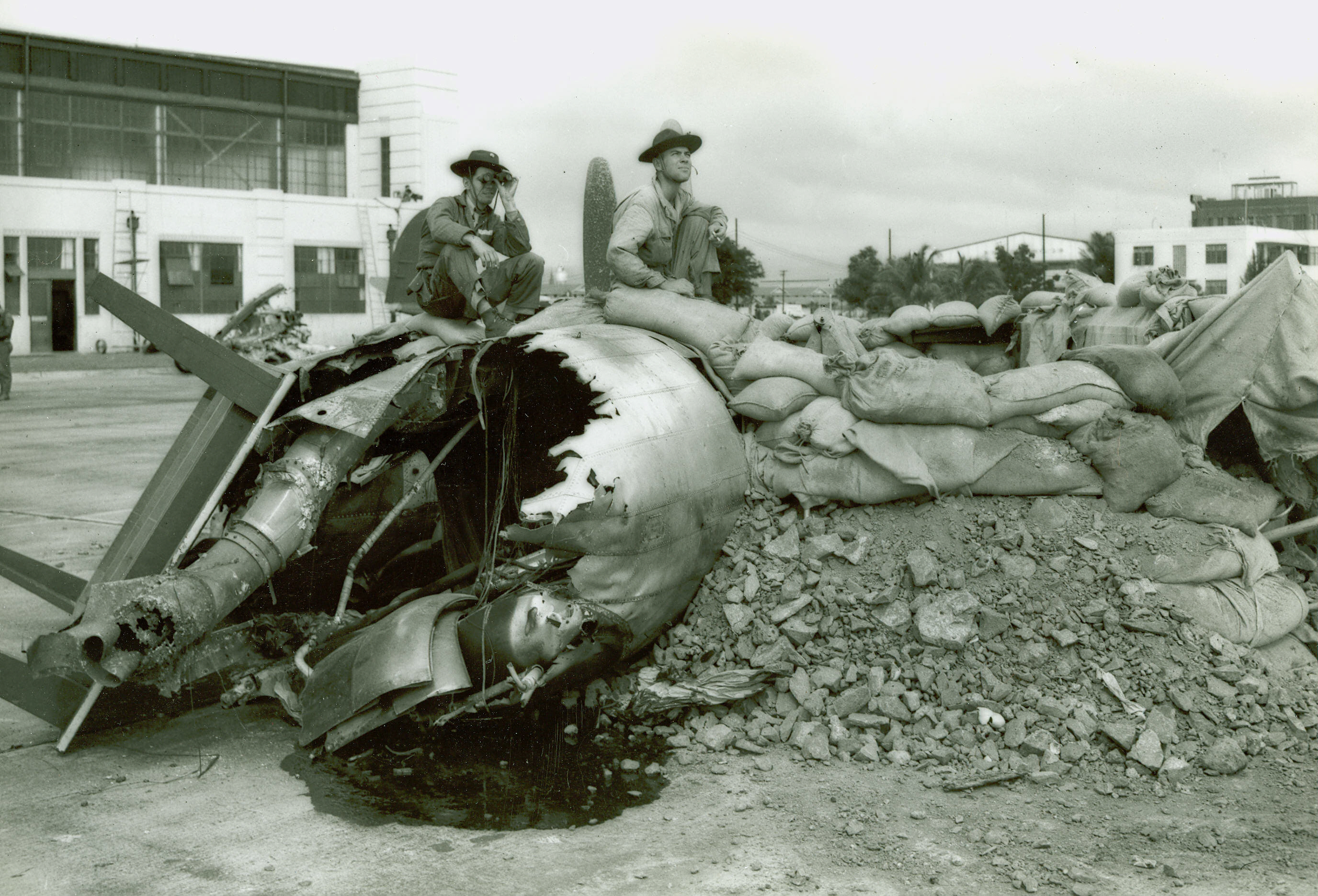 Photo shows a scene from shortly after the bombing of Hawaii by Japanese forces on December 7, 1941. The impromptu machine gun nest was built in a bomb crater and reinforced with salvaged aircraft motors.